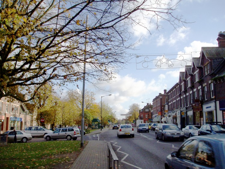 Harpenden High Street looking south. Picture taken on 13th November 2005 by Tony Jones.